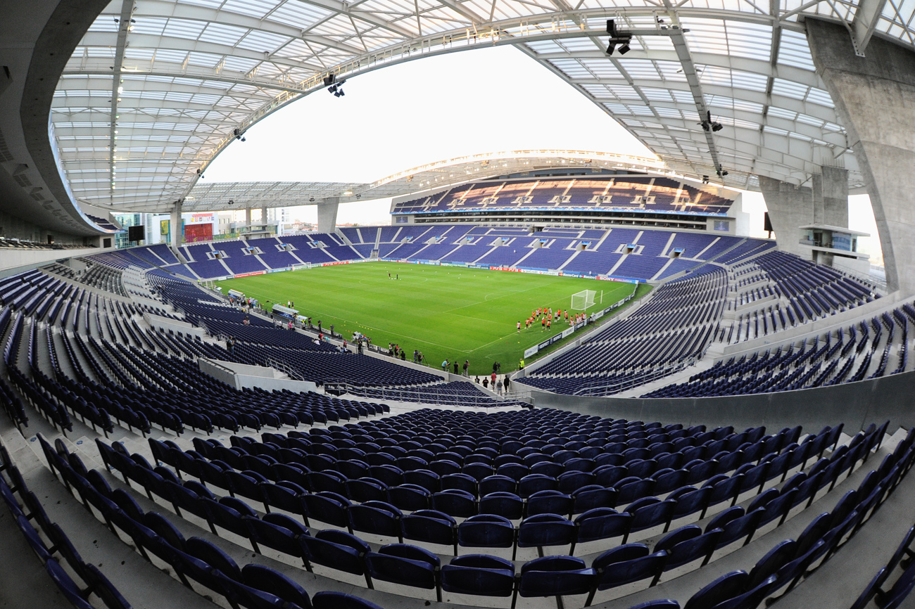 Estádio do Dragão in Porto, Portugal